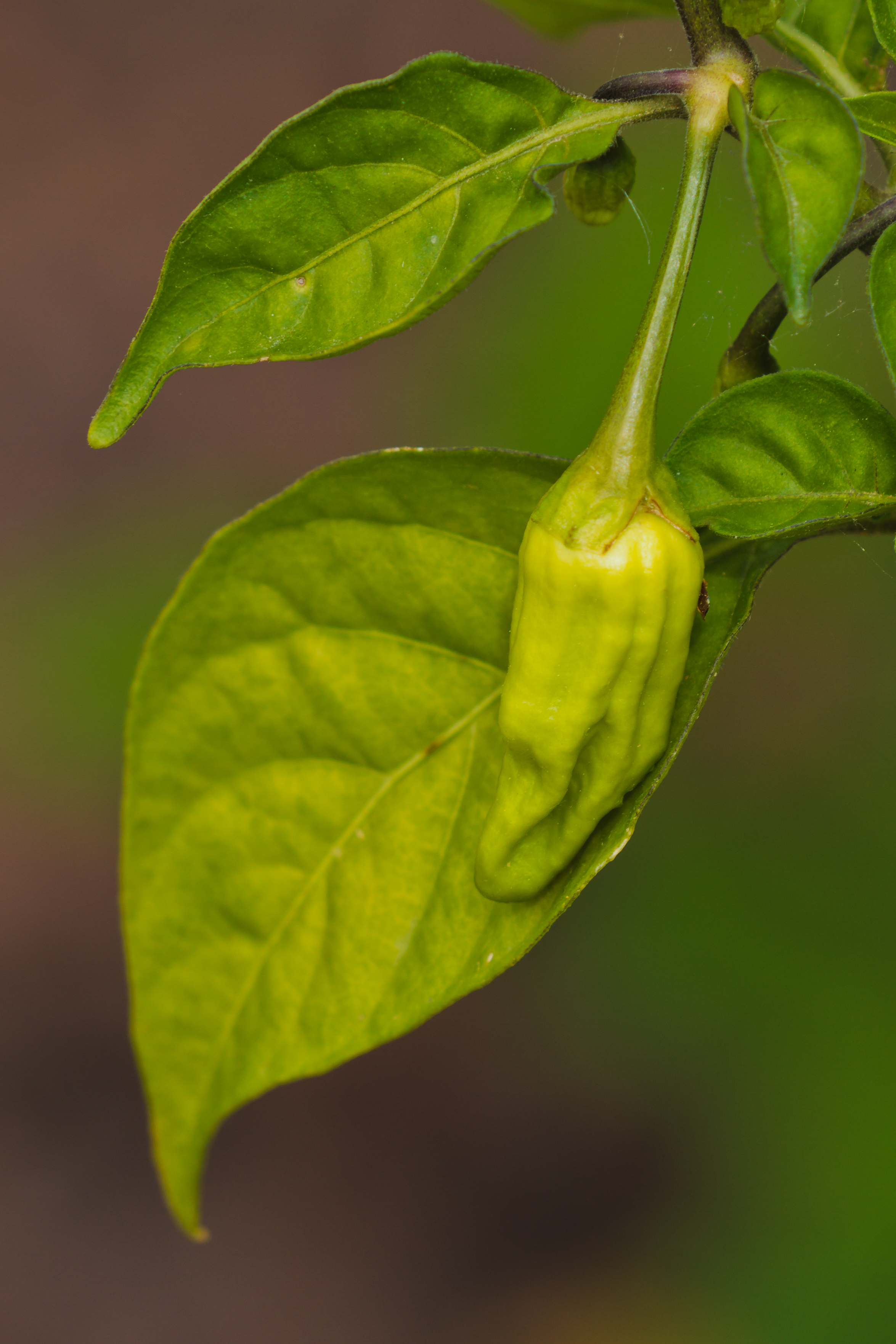 Capsicum chinense 'Naga morich'